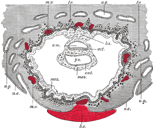 Section through ovum imbedded in the uterine decidua. Semidiagrammatic. (After Peters.) am. Amniotic cavity. b.c. Blood-clot. b.s. Body-stalk. ect. Embryonic ectoderm. ent. Entoderm. mes. Mesoderm. m.v. Maternal vessels. tr. Trophoblast. u.e. Uterine epithelium. u.g. Uterine glands. y.s. Yolk-sac.